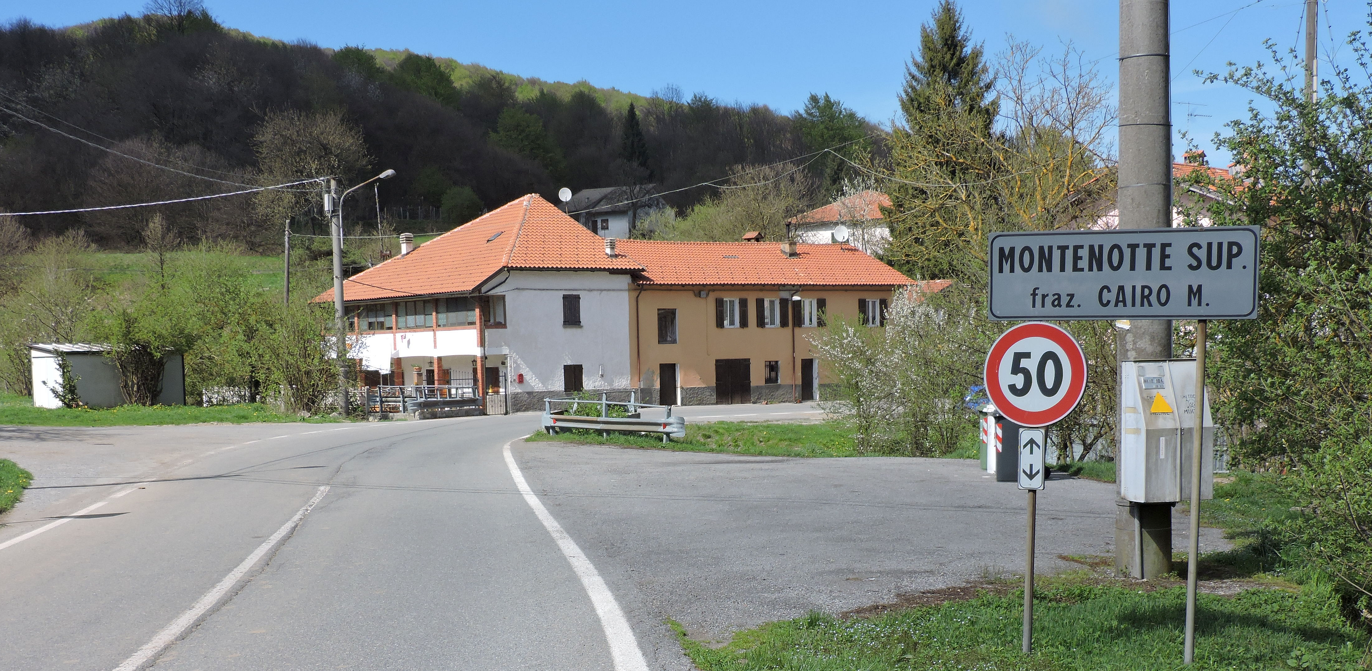 Montenotte Superiore (Cairo Montenotte, SV, Italy)